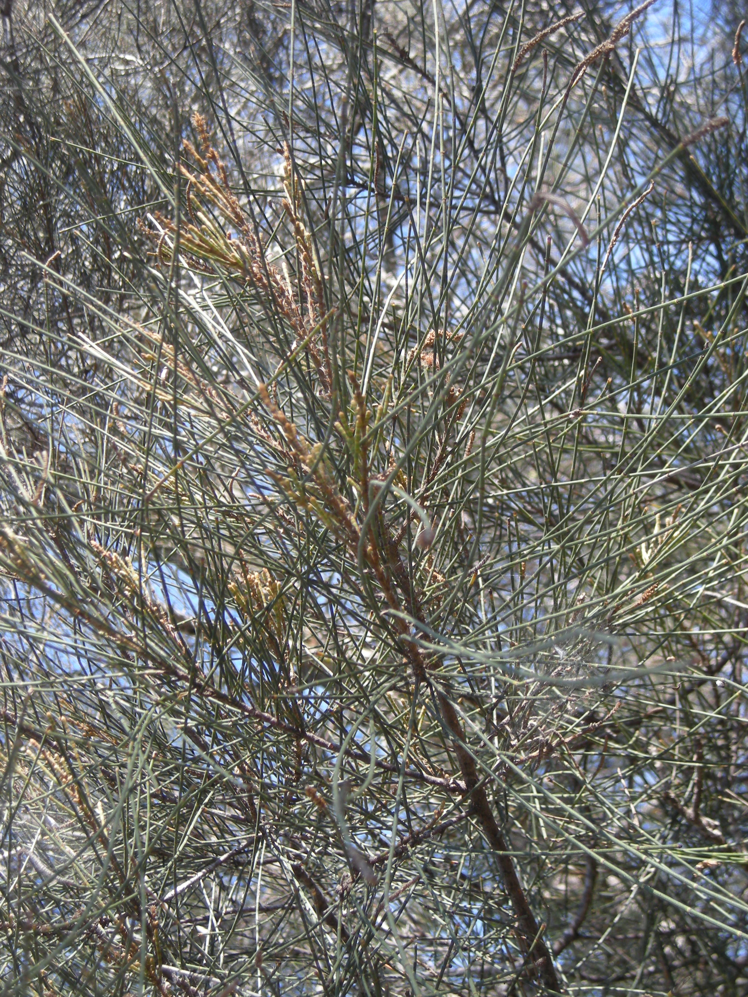 Allocasuarina leuhmannii shoot, Euc. populnea woodland, central Queensland.